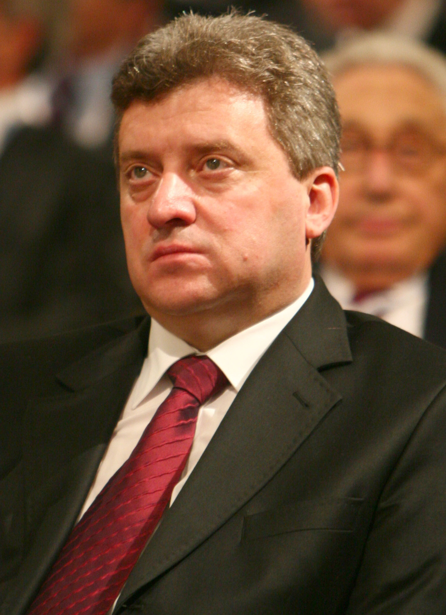 46th Munich Security Conference 2010: Dr. Gjorge Ivanov, President, Macedonia.